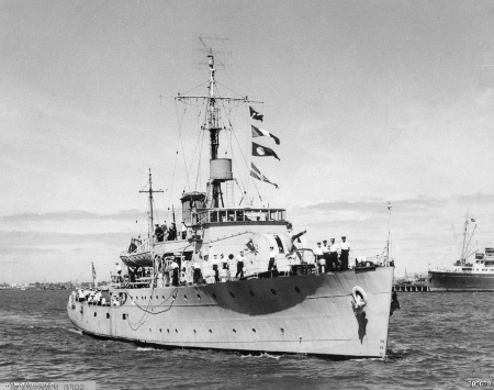 Australian Bathurst class corvette HMAS Gladstone in 1949, at Port Melbourne.